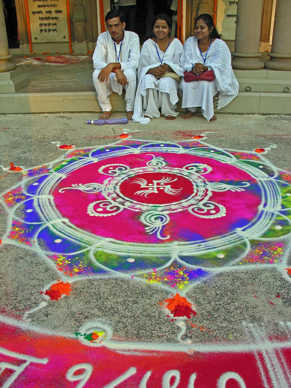 Three women seated behind a colourful rangoli outside Bharat Mata Temple in Varanasi. Original caption: A beautiful sand painting was outside the Bharat Mata Temple. Varanasi, India Bharat Mata Temple at Varanasi is the only temple dedicated to Mother India. The temple was built by Babu Shiv Prasad Gupt and inaugurated by Mahatma Gandhi in 1936.